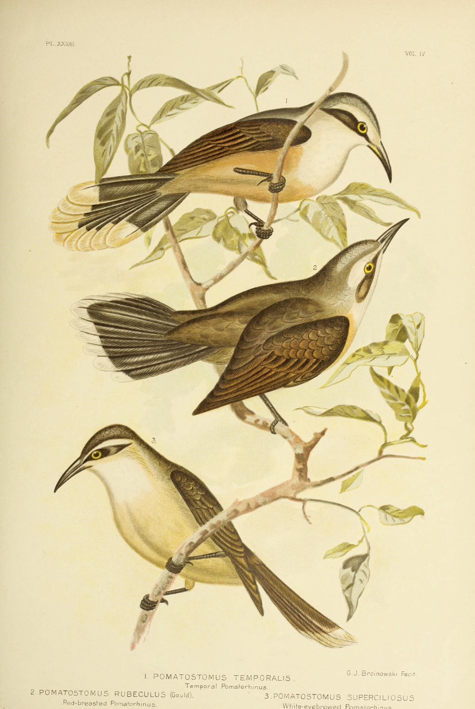 PL.XXXIIf. I. P0MAT05T0MUS TEMPORALIS. G.J. Broinowski Fecih Temporal PomaForhmus 2.POMATOSTOMUS RUBECULUS (Gould). 3 . POMATOSTOMUS SUPERCI LI OSU S Red-breasred Pomatorhinus. Whihe-evebrowed Pom*k.rh,n,,c